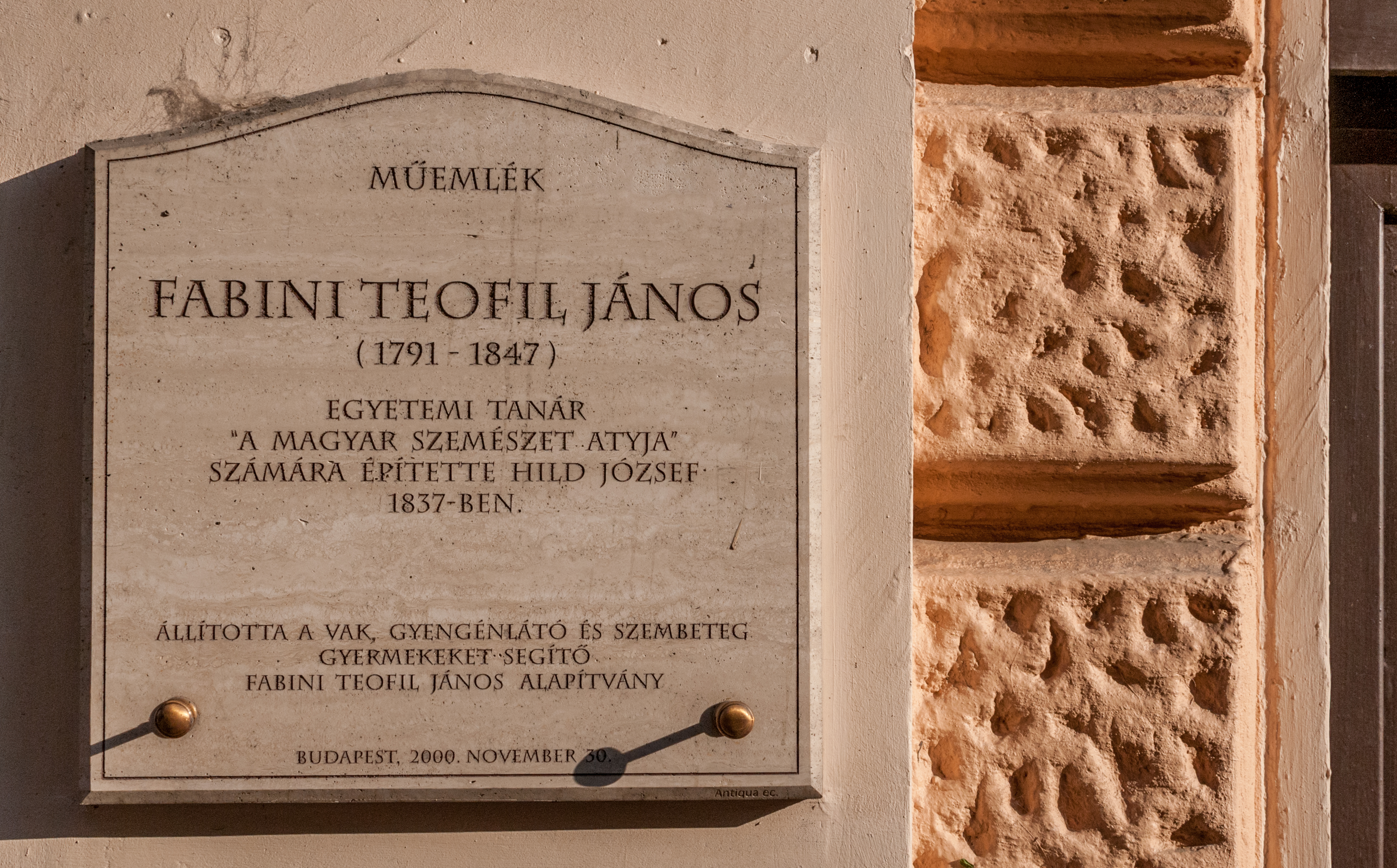 Plaque of János Teofil Fabini in Budapest District V, Zrínyi utca 9.